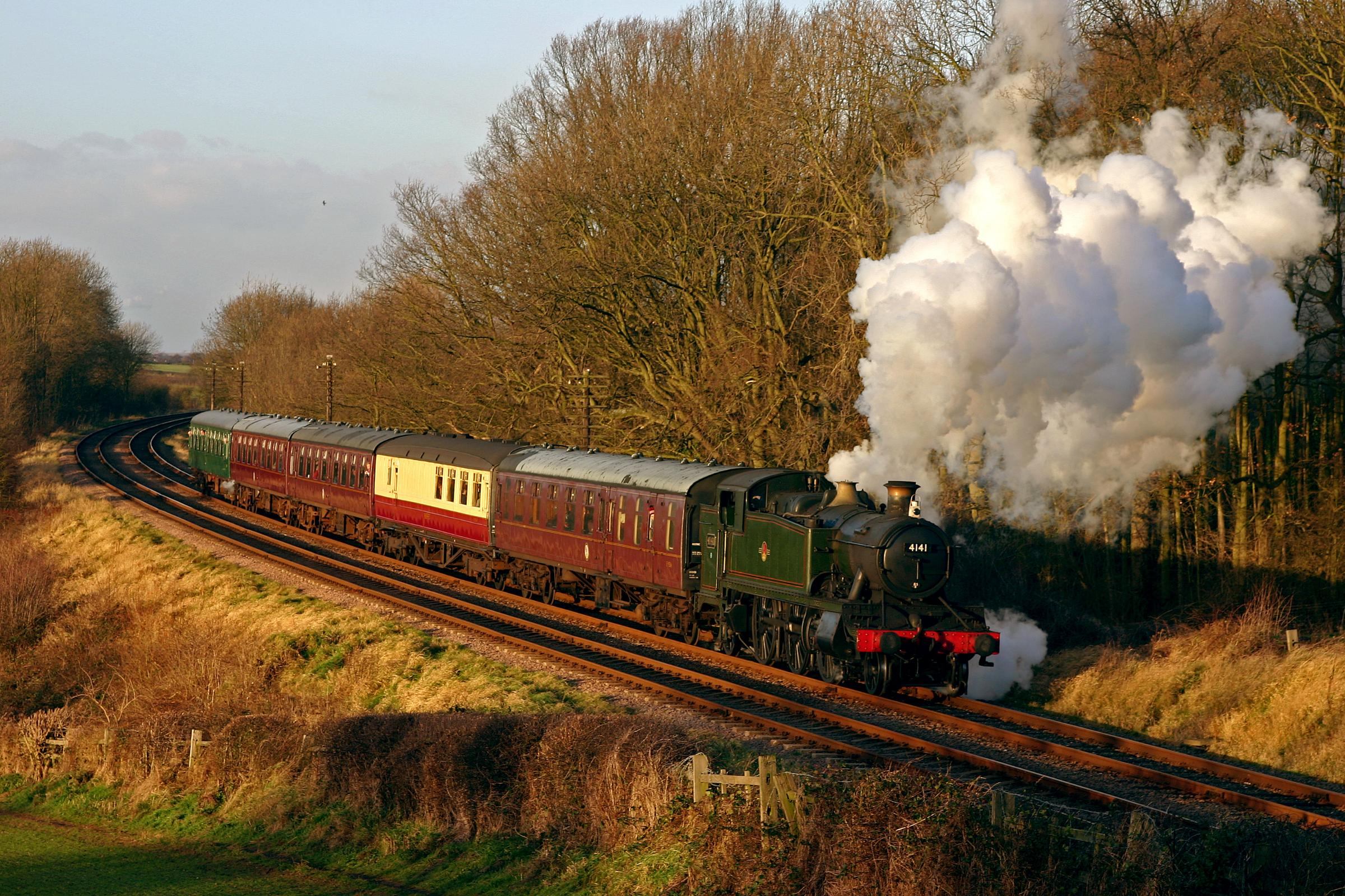 GWR Prairie 4141 passes Kinchley Lane bridge on the Great Central Railway.